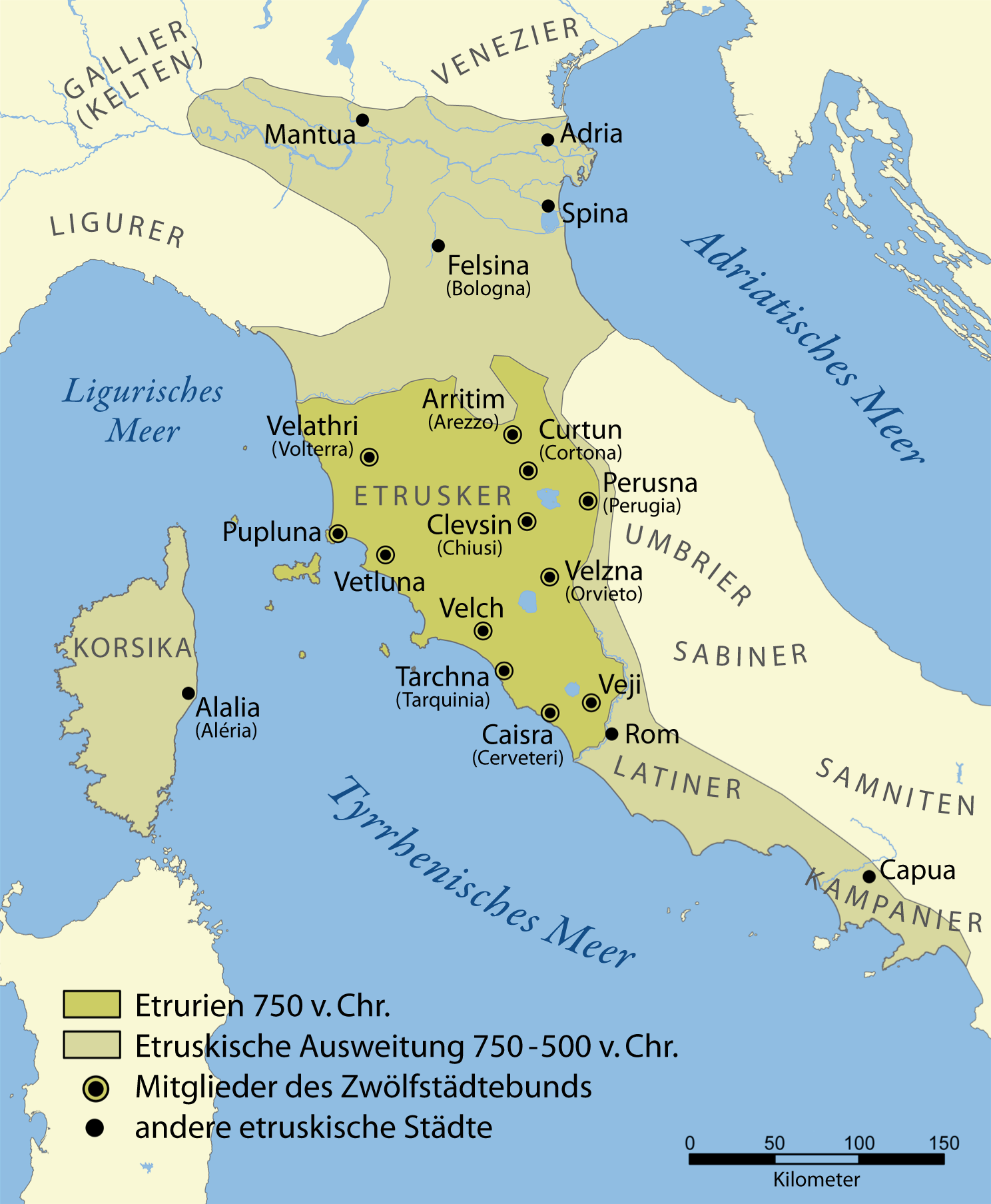 A map showing the extent of Etruria and the Etruscan civilization. The map includes the 12 cities of the Etruscan League and notable cities founded by the Etruscans. The dates on the map are an approximation based on the sources I had. If the article is updated with more accurate dates let me know and I'll modify this map to suit.